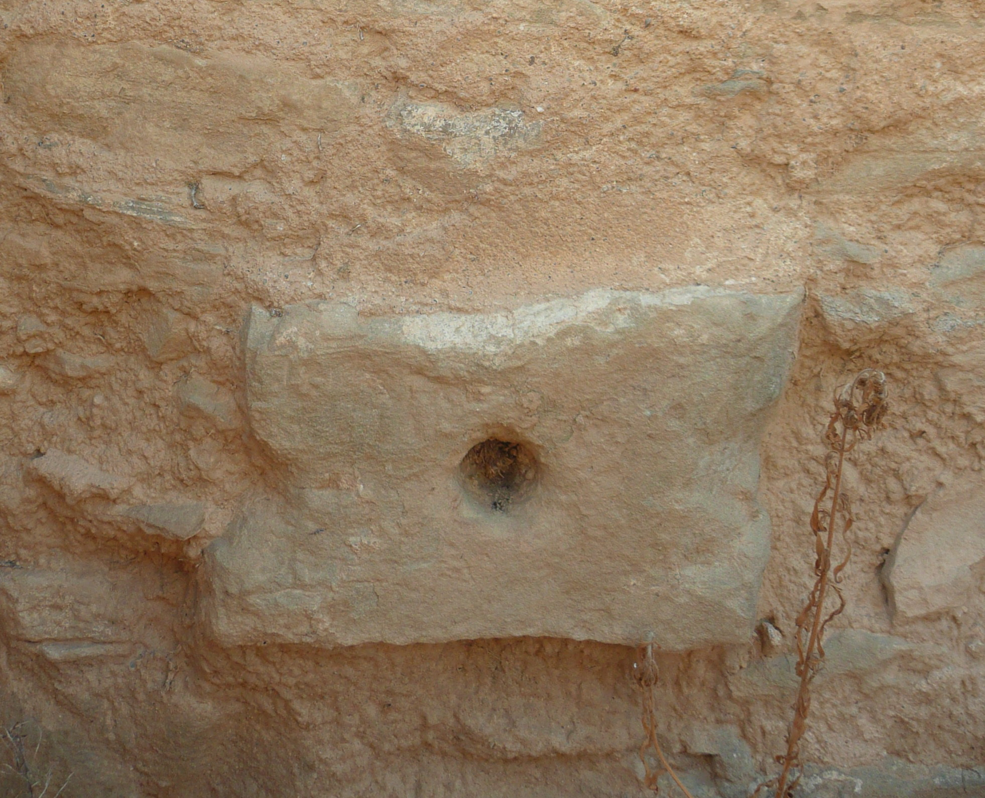 Stone with a hole to take out the wine from a press wine.